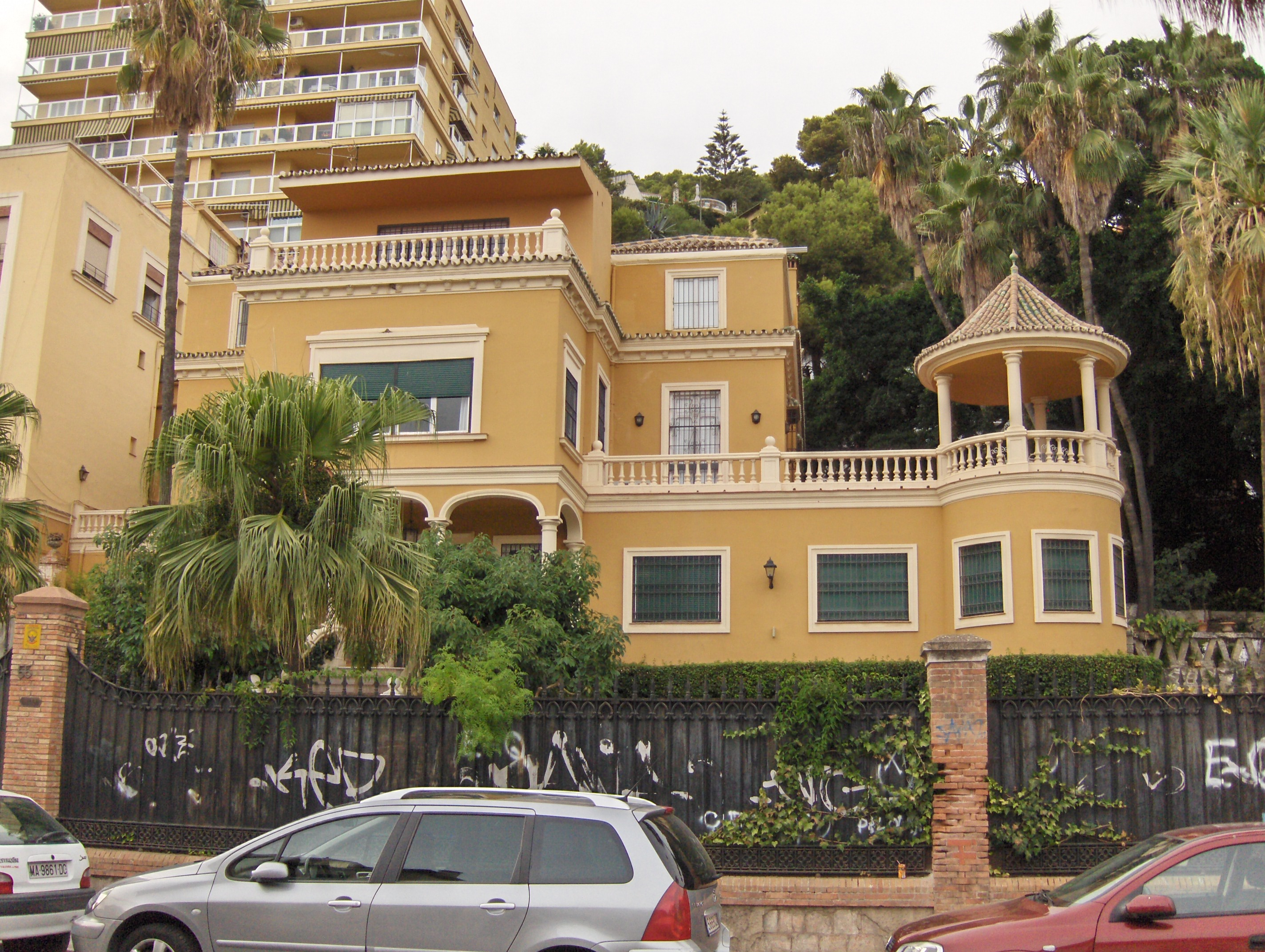 House in nº 55 Paseo de Sancha.